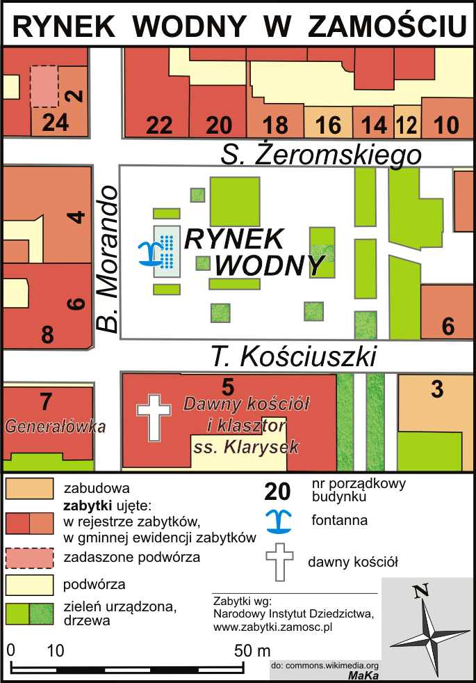 Plan of Water Market Square in Zamość, Poland